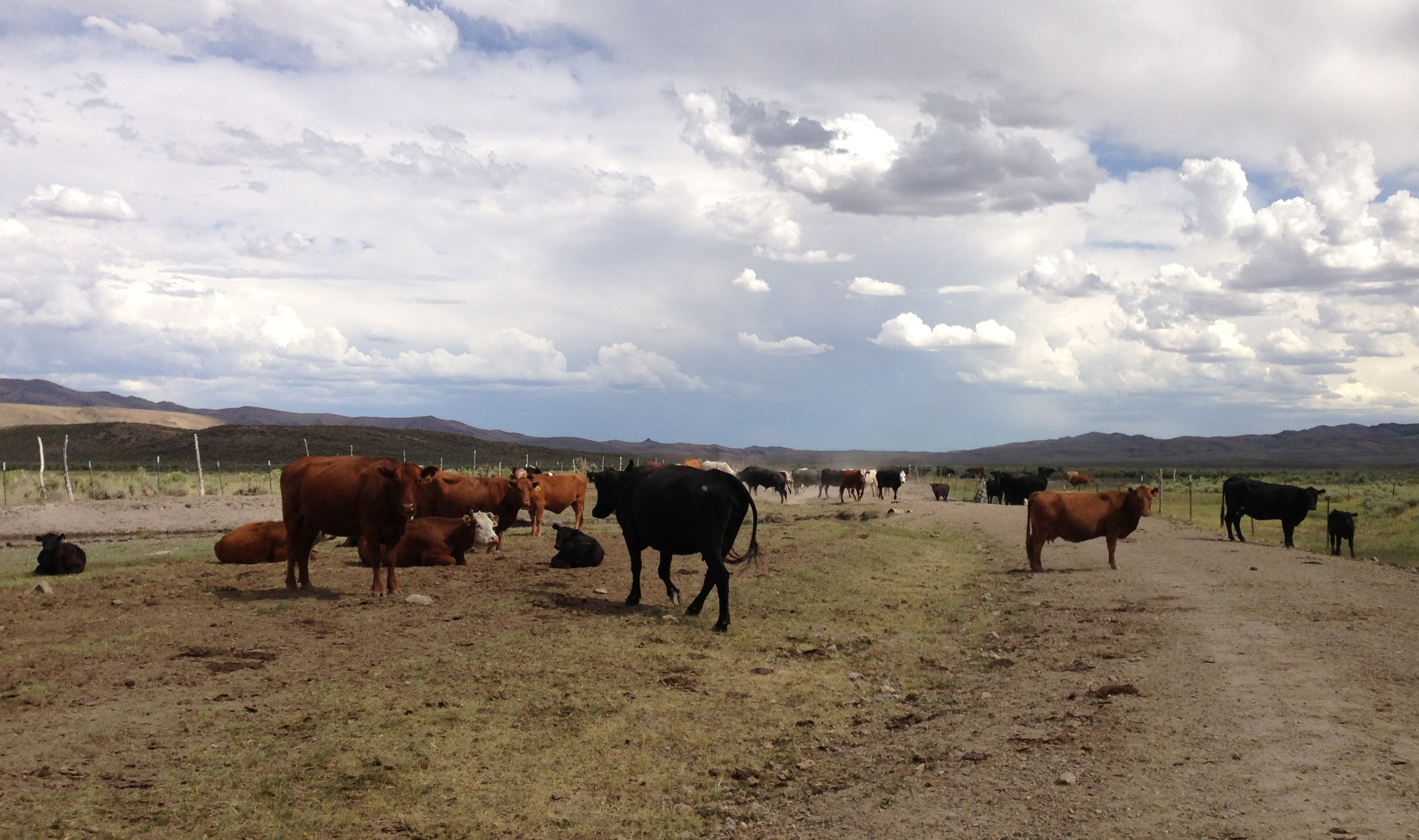 Cattle along Deeth-Charleston Road (Elko County Route 747) at the Bruneau River, about 38.6 miles north of Deeth in Elko County, Nevada